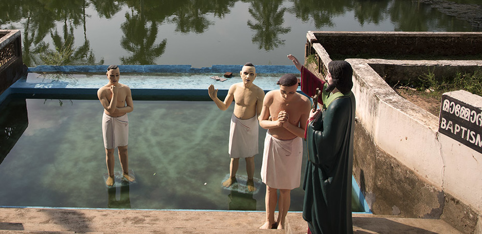 In 52 AD (CE)Saint Thomas the Apostle landed in the port of Muziris or Crangannur, now called Kodungalloor in Ernakulam District of Kerala on the South West coast of India to spread the Gospal as commanded by the Lord Jesus Christ after Pentecost. While visiting the nearby Jewish community, Thomas visited Paliyoor (Paliyoor) which was those days a village of orthodox Nampoothiri Brahmins. He is said to have converted several Brahmin families in the village and established a church near the Temple pond where he baptized the Brahmins. The tank is preserved to this day with the addition of this tableau. St. Thomas went on to establish seven more Churches all over Kerala before leaving for Madras (Chennai) where he was martyred.